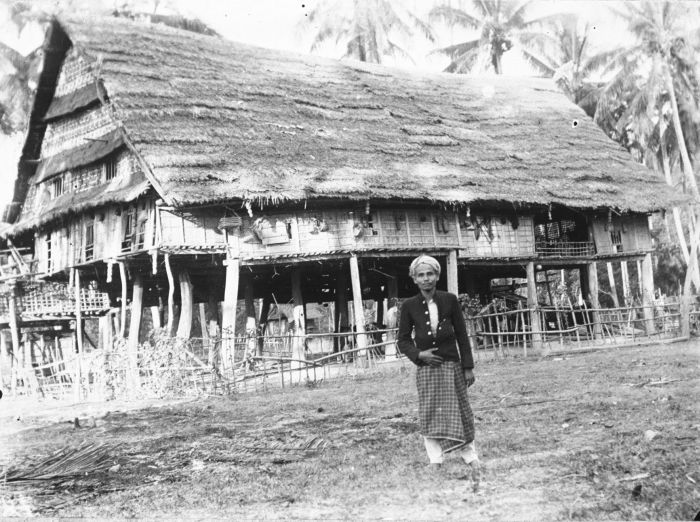 House of the sulewatang at Tjita